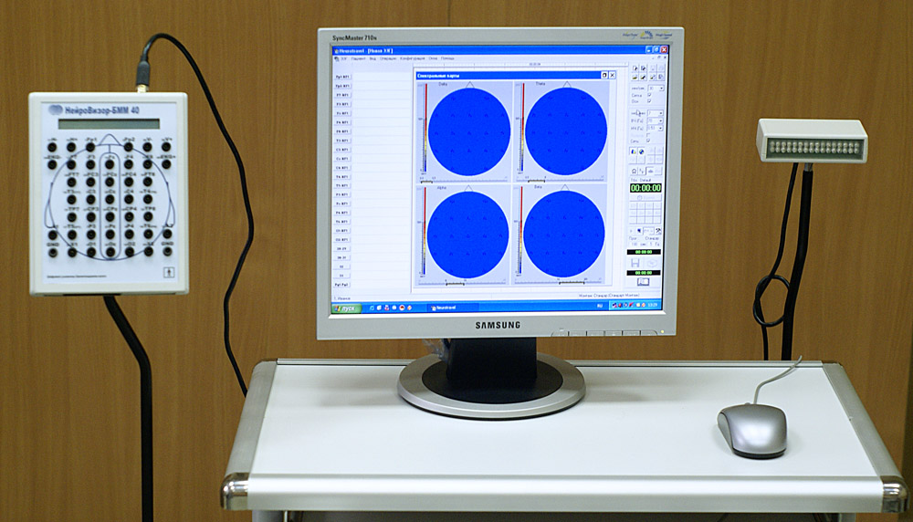 Electroencephalograph "Neurovisor-BMM 40" produced by JSC "Bioss" (Zelenograd, Moscow, Russia).Left: electroencephalograph; center: computer and display; right: photic stimulator